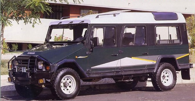 UMM Alter sw